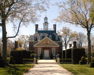 Williamsburg's Governors Palace